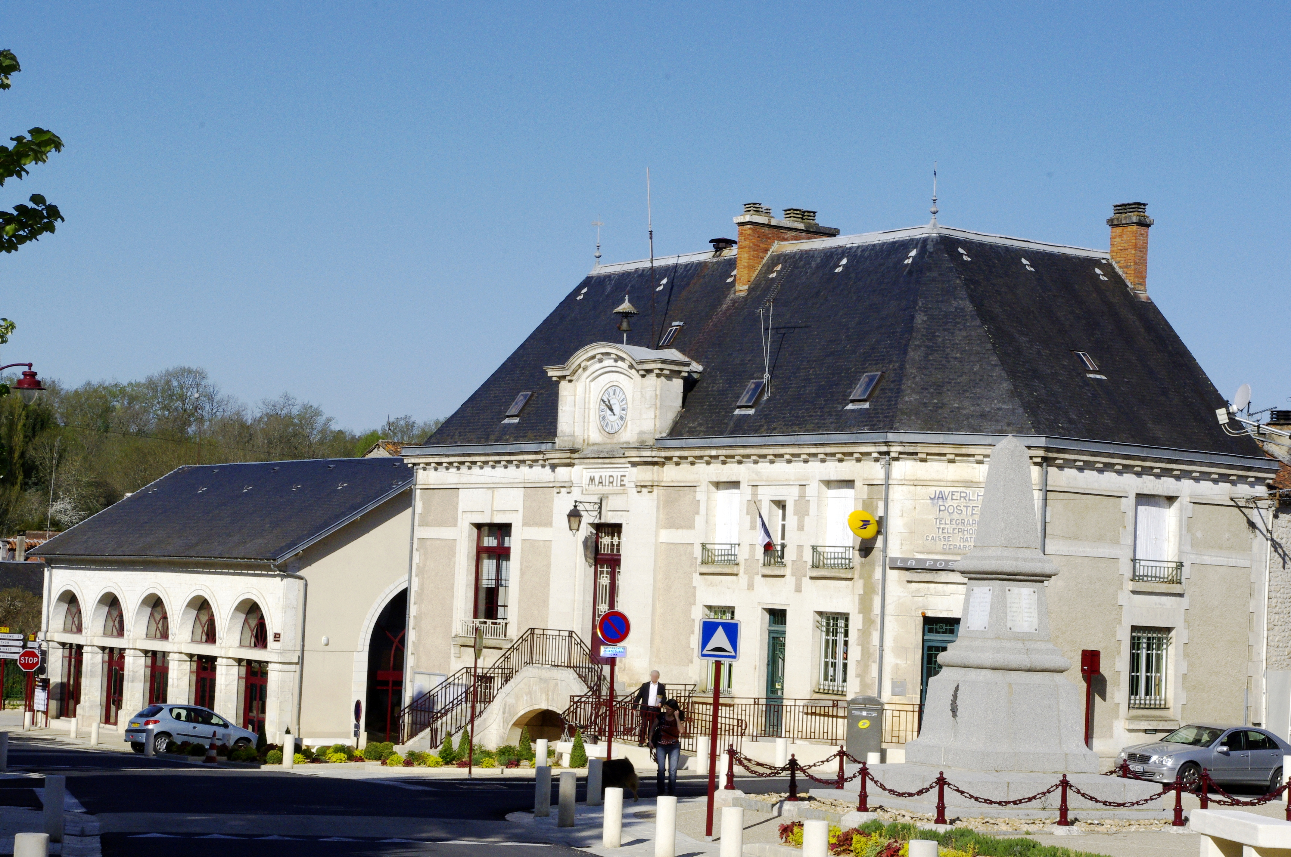 Townhall and postoffice of Javerlhac with the war memorial and in the background the "salle de la culture".